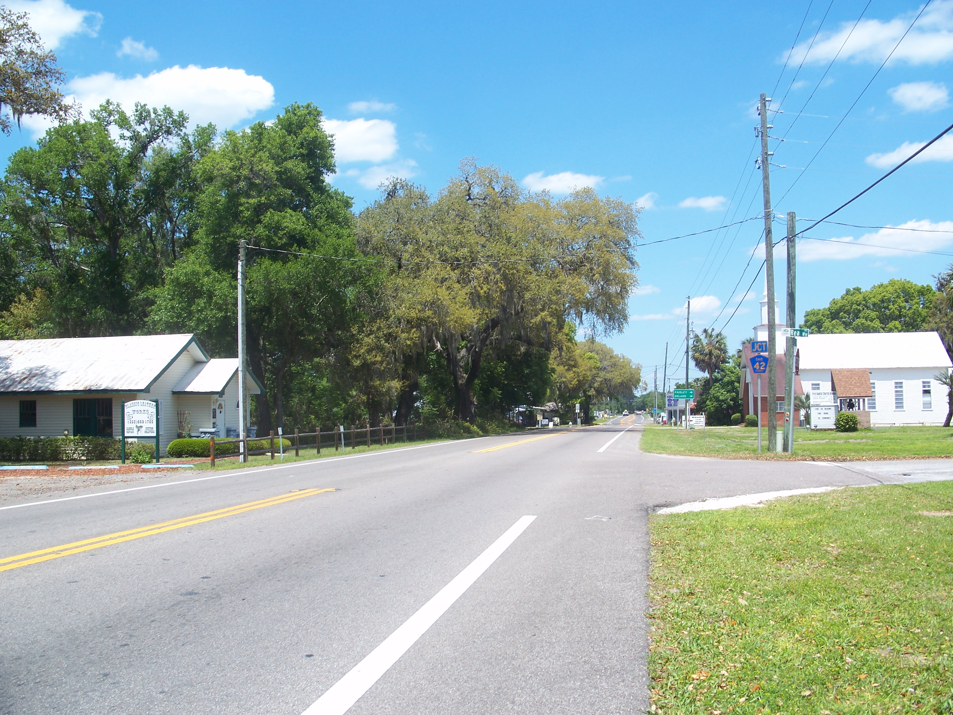 Altoona, Florida: Southern part of town, looking north along FL 19 towards the intersection with County Road 42